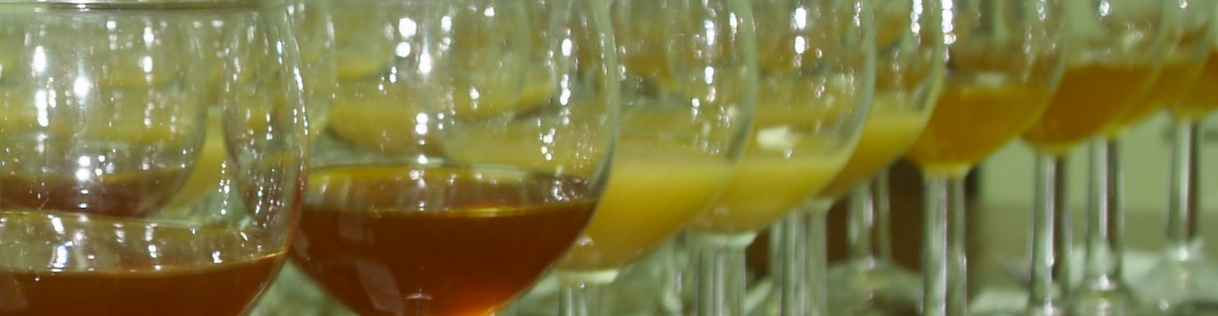 Copas varias mieles